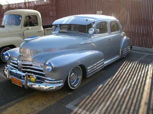 1948 Chevrolet Fleetline, low-floored, from the Viejitos Car Club Orange County of mexico.